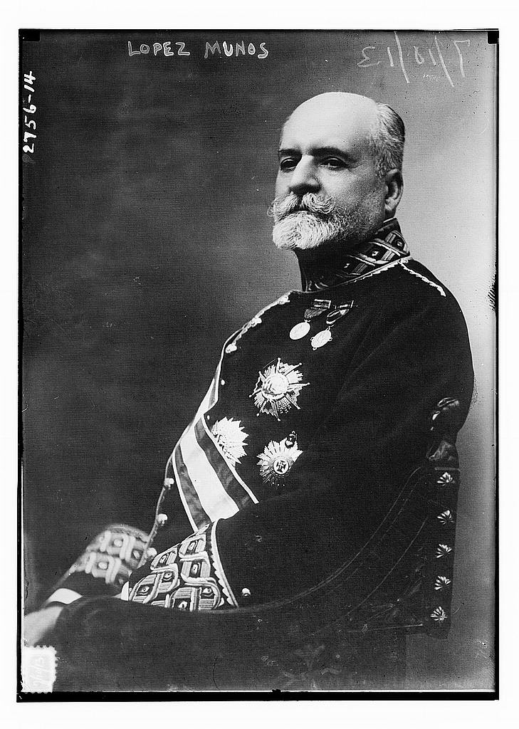 Bain News Service,, publisher. Antonio López Muñoz [no date recorded on caption card] 1 negative : glass ; 5 x 7 in. or smaller. Notes: Title from unverified data provided by the Bain News Service on the negatives or caption cards. Forms part of: George Grantham Bain Collection (Library of Congress). Format: Glass negatives. Repository: Library of Congress, Prints and Photographs Division, Washington, D.C. 20540 USA, General information about the Bain Collection is available at Persistent URL: Call Number: LC-B2- 2756-14